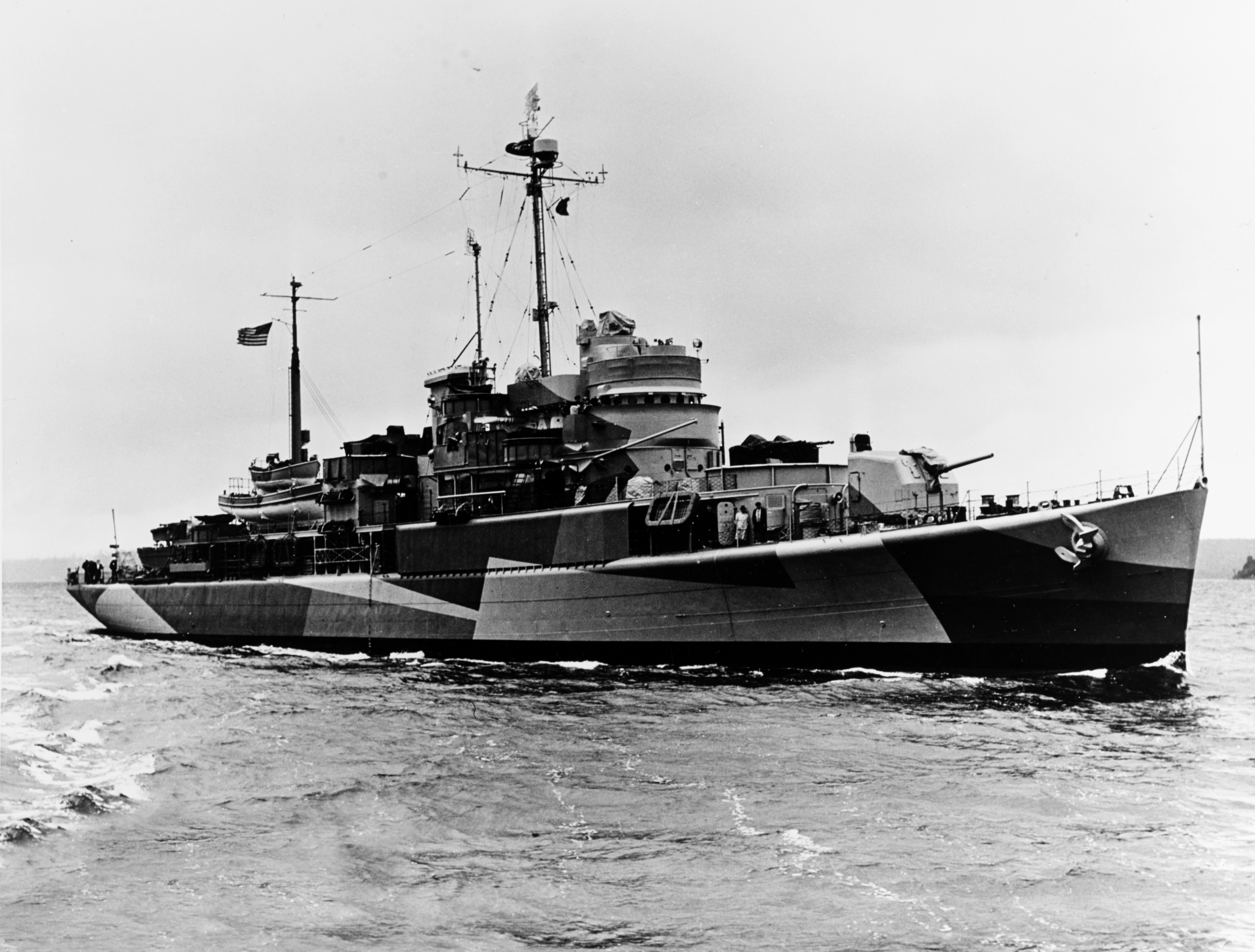 The U.S. Navy small seaplane tender USS Floyds Bay (AVP-40) underway off Houghton, Washington (USA), on 22 March 1945. Her camouflage is Measure 33, Design 1F.